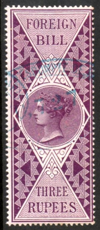 India 1861 3R Foreign Bill Stamp